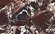 Alacakaya mermer